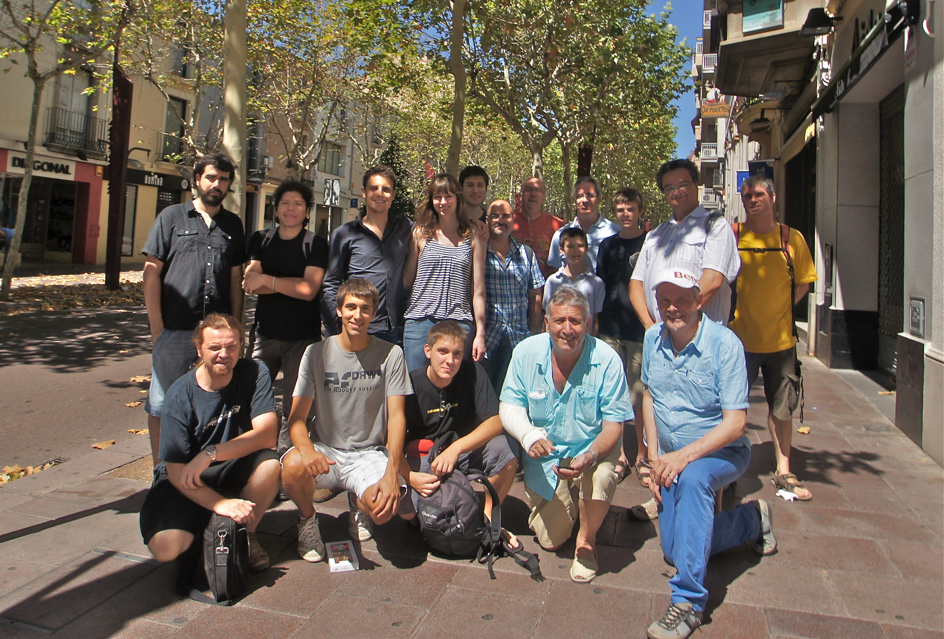 Wikimeeting of Catalan Wikipedians in Sabadell, August 2012